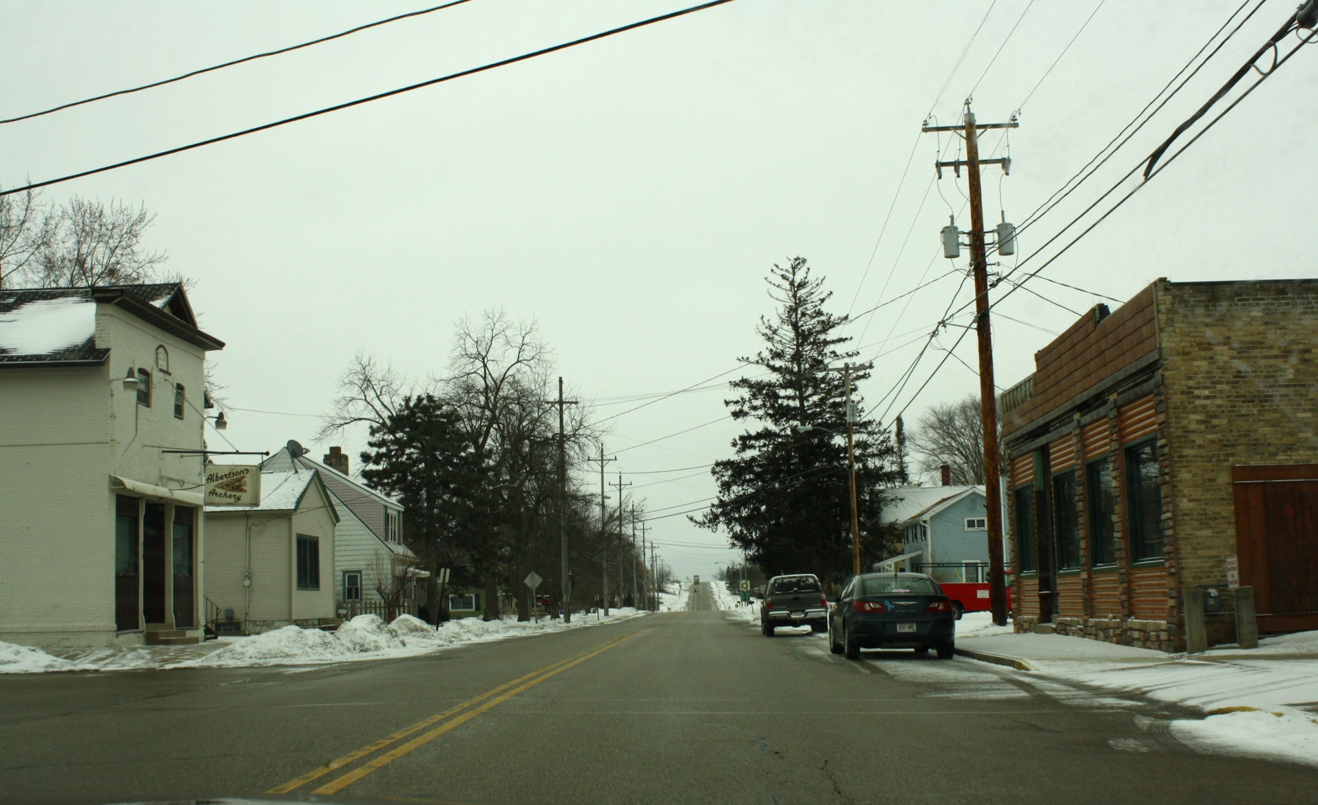 Looking south in Neosho, Wisconsin on Wisconsin Highway 67.